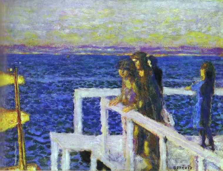 Painting by Pierre Bonnard